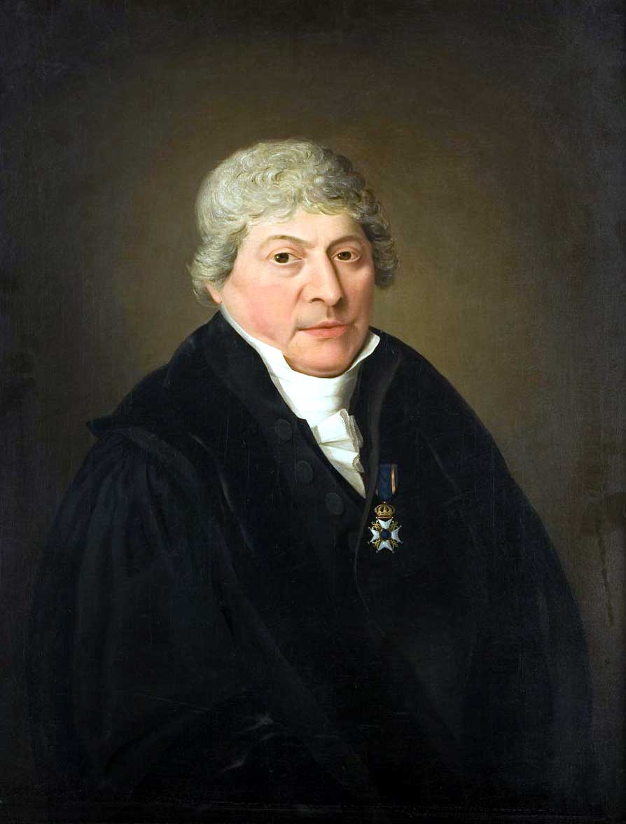 Meinard Simon du Pui (1754-1834) Dutch physician